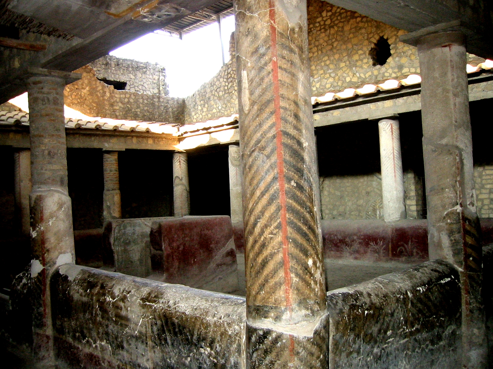 The photo was taken at the excavated Villa in Oplontis, the modern Torre Annunziata near Naples in Campania, Italy. It shows the Peristyl, room 32.